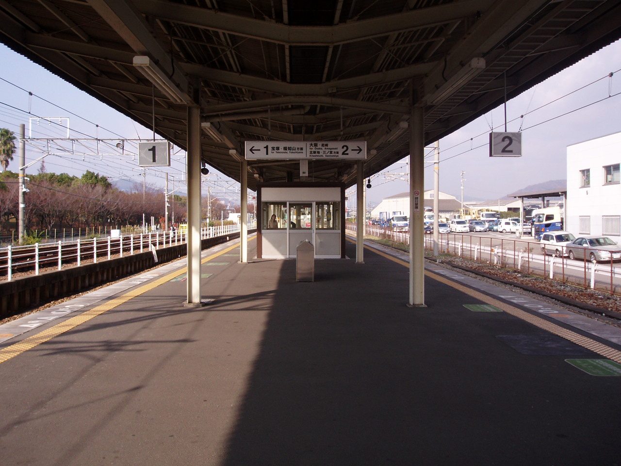 West Japan Railway Kita-Itami Station Platform 西日本旅客鉄道 福知山線（JR宝塚線） 北伊丹駅 駅ホーム